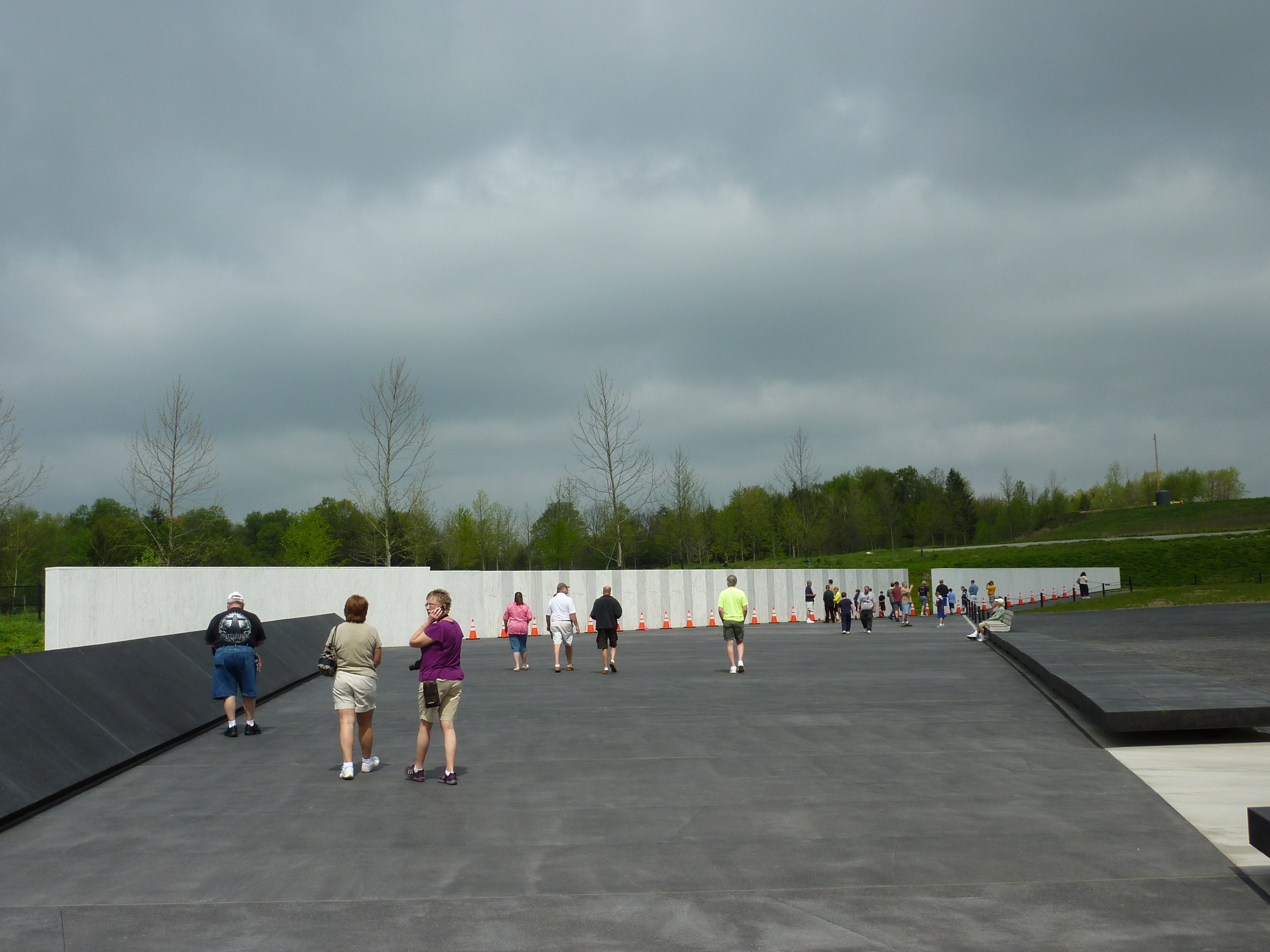 The black granite Memorial Plaza and white marble Wall of Names at the Flight 93 National Memorial